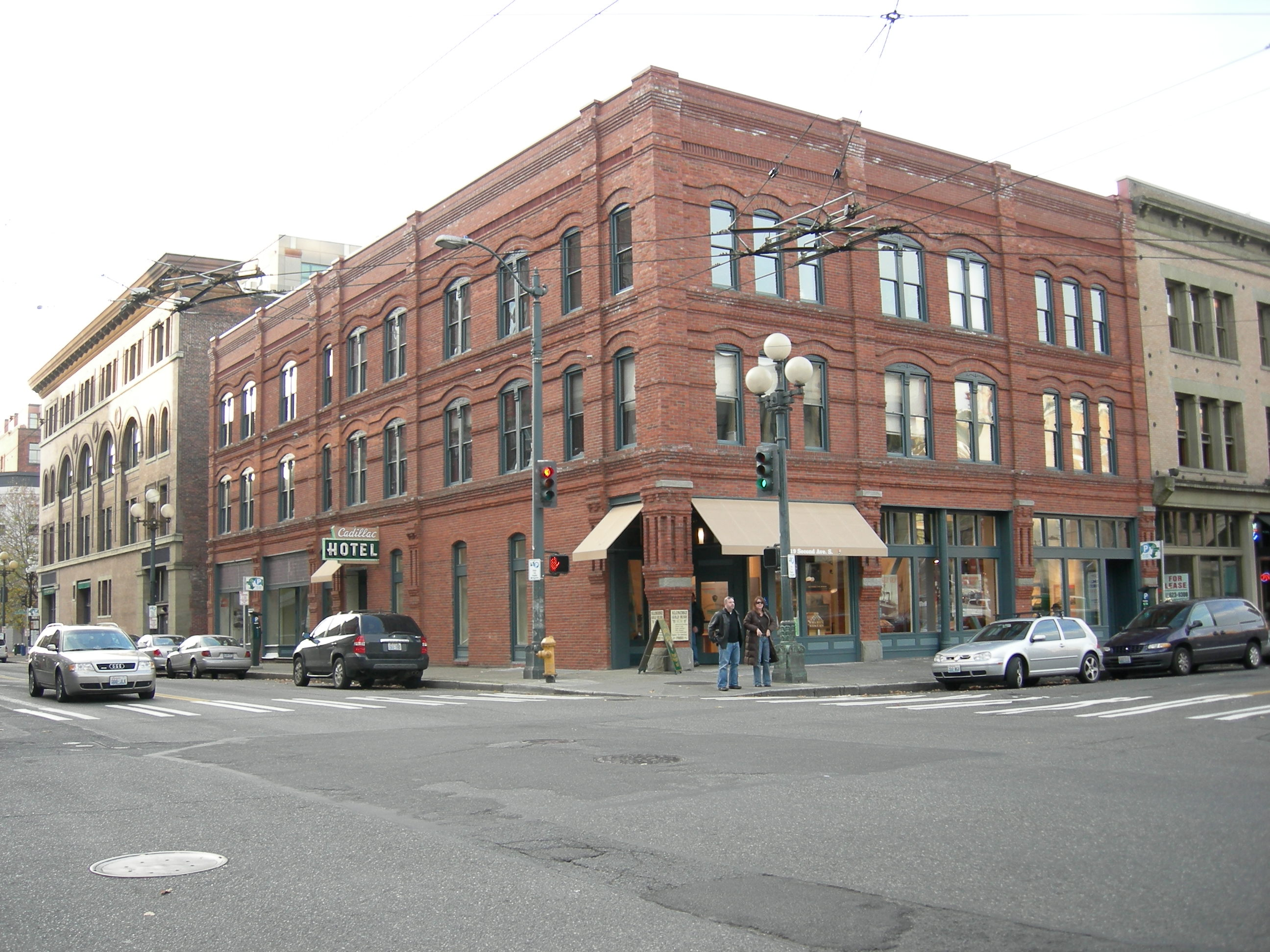 Cadillac Hotel building, 319 Second Avenue South, Pioneer Square neighborhood, Seattle, Washington, USA. Built 1890. The building now (2007) houses the Klondike Gold Rush National Historic Park Museum and National Park Service Regional Headquarters. For more information see Summary for 319 2nd AVE / Parcel ID 5247800715, Seattle Department of Neighborhoods. (Same building, even though they accidentally omitted "South" from the address.) Also page about the Cadillac Hotel rehabilitation after the 2001 earthquake, on the site of Historic Seattle.